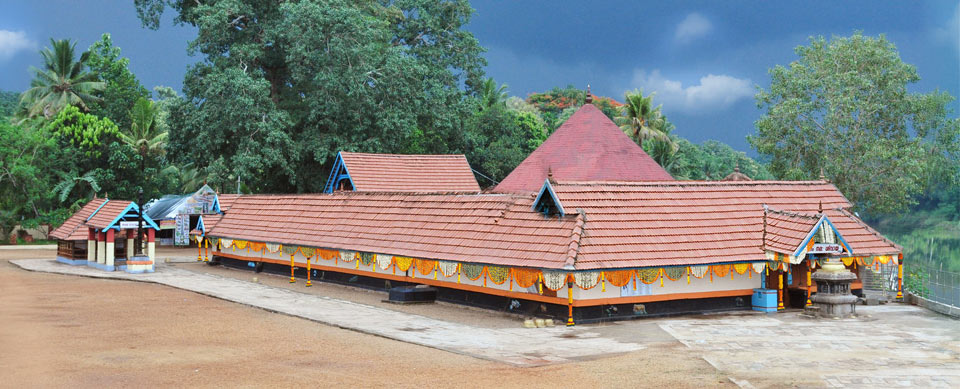 Pandalam Mahadaver Temple, Pandalam, Kerala, India